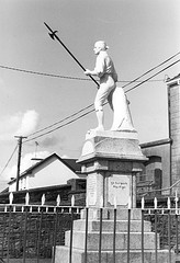 Memorial to the battle of Ballinamuck erected in the Ballinamuck town centre.